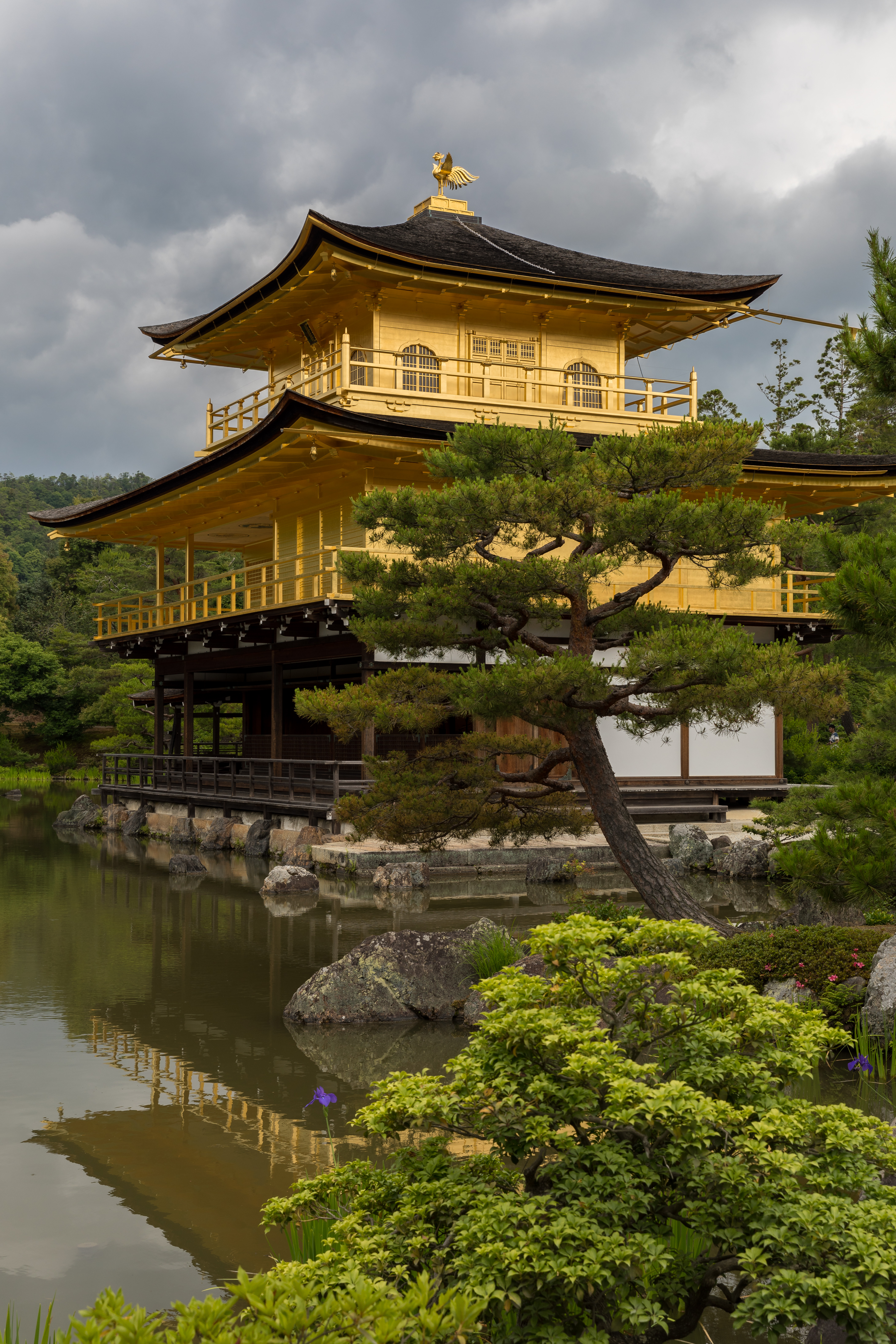 Water reflection of Kinkaku-ji Temple, side view, a cloudy day, Kyoto, Japan.